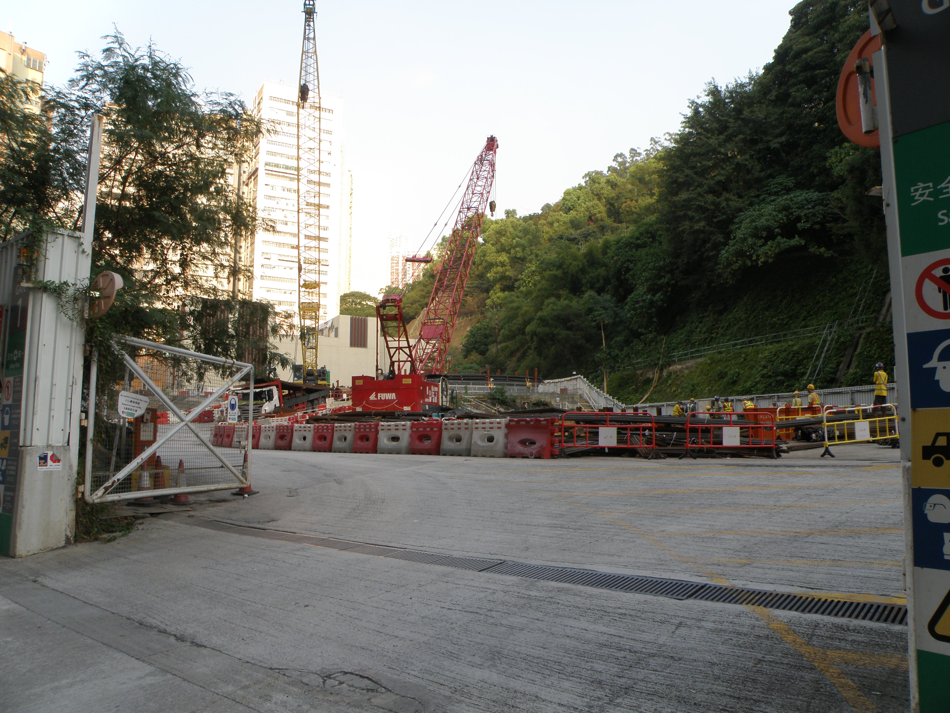 Shek yam to Mei Lai Road Tunnels of Guangzhou Shenzhen Hongkong Express Rail Link, Kwai Chung, Hong Kong.